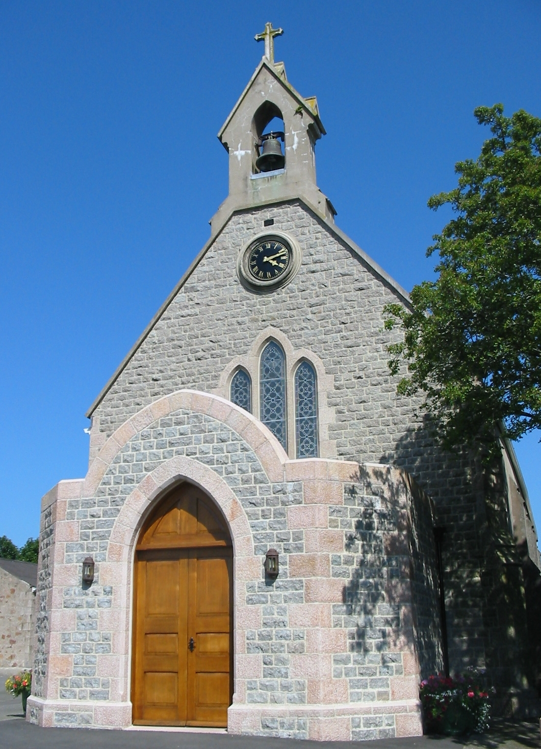 Jersey, 22 June 2009